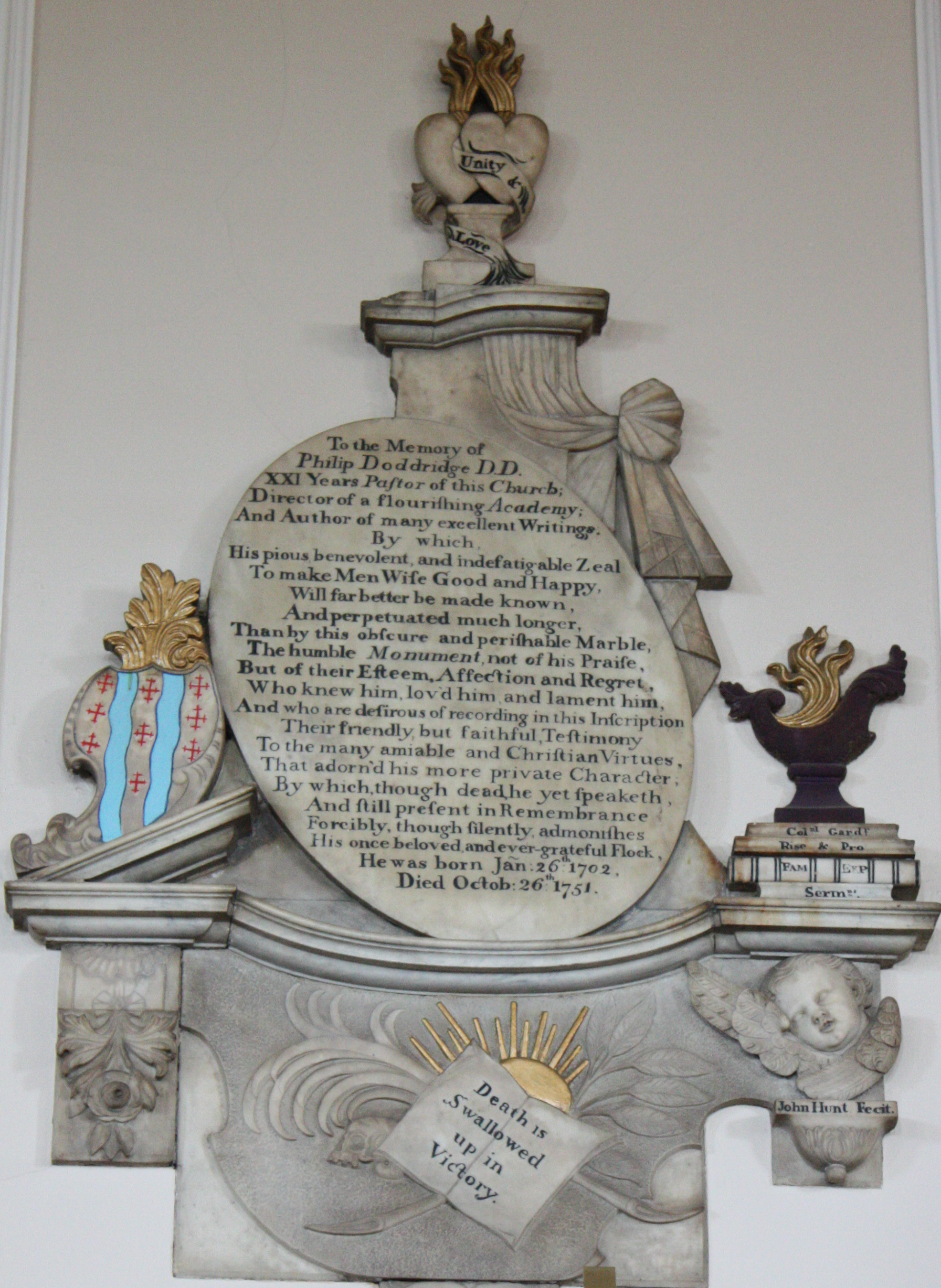 Philip Doddridge Memorial Northampton England